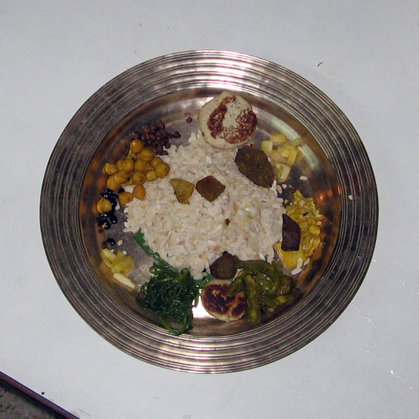 Bronze dinner plate containing food for Mha Puja feast, Kathmandu, Nepal.